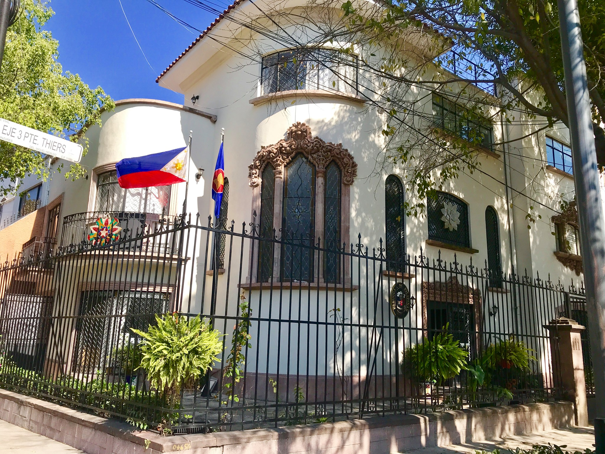 Exterior of the Embassy of the Philippines in Mexico City, located since 2018 at Avenida Thiers 111, Colonia Anzures, Delegación Miguel Hidalgo in Mexico City. Tagalog: Labas ng Embahada ng Pilipinas sa Lungsod ng Mehiko, na nakahimpil mula 2018 sa Avenida Thiers 111, Colonia Anzures, Delegación Miguel Hidalgo sa Lungsod ng Mehiko.